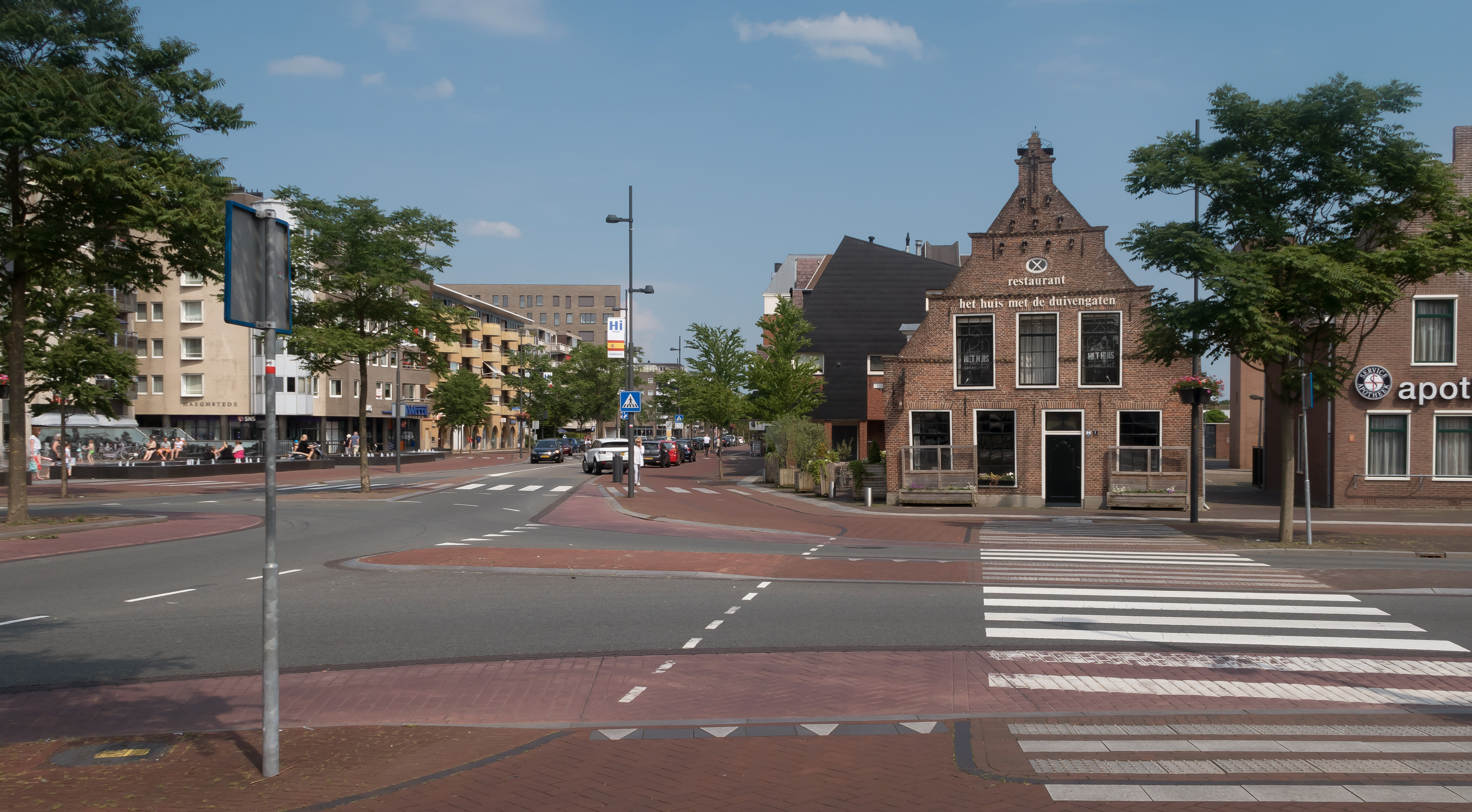 Hoogeveen, monumental house: het Huis met de Duivengaten (=the House with the Pigeonwholes)